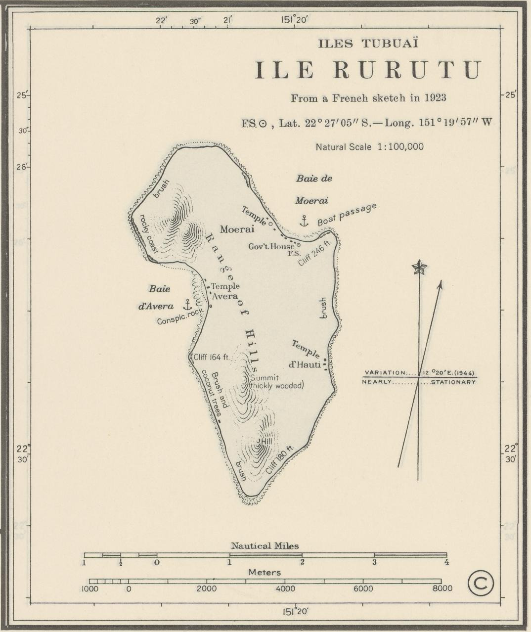 nautical chart of Raivavae, with insets of Ilôts Maria (Hull), Rimatara, Rurutu, Austral Islands, French Polynesia, South Pacific Ocean